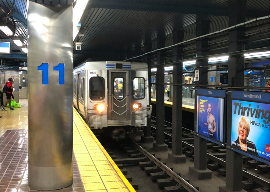 11th Street MFL station